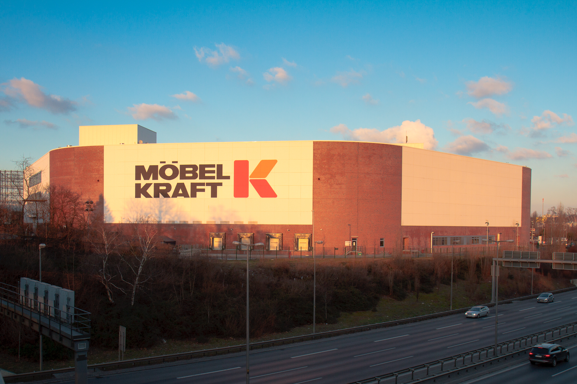 Furniture store in Berlin-Schöneberg at sunset.